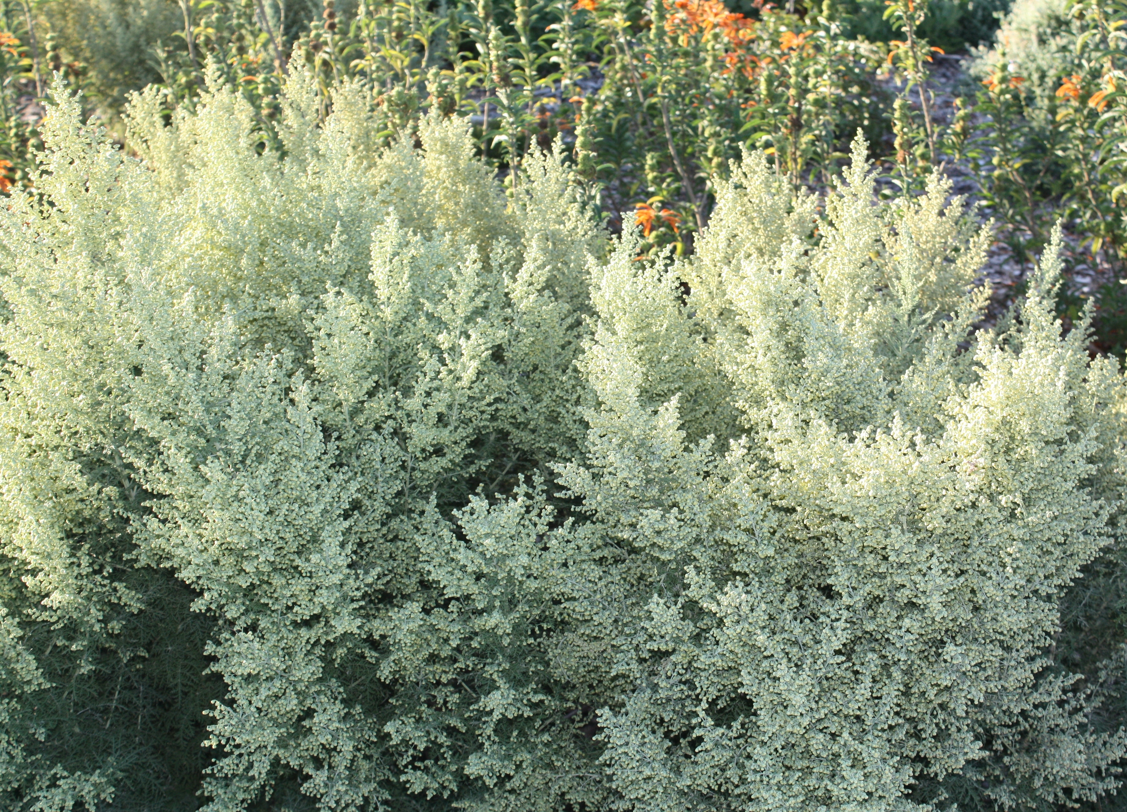 Artemisia afra. Aromatic medicinal herb of South Africa. Wildeals. Cape Town herb garden.